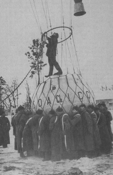 High altitude balloon Osoaviahim" to start. Moscow. January 30, 1934